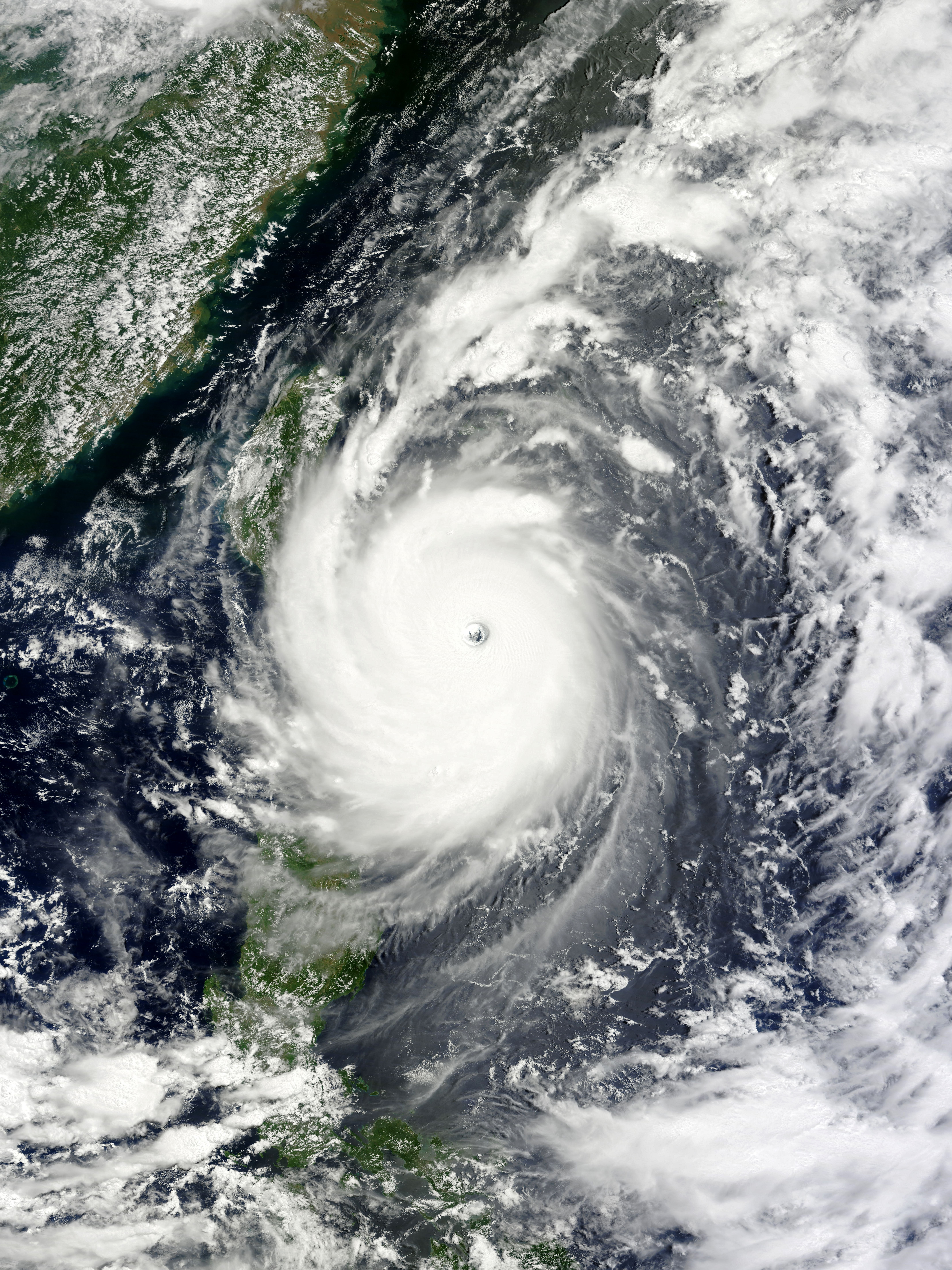 Typhoon Nepartak at peak intensity and approaching Taiwan on July 7, 2016.